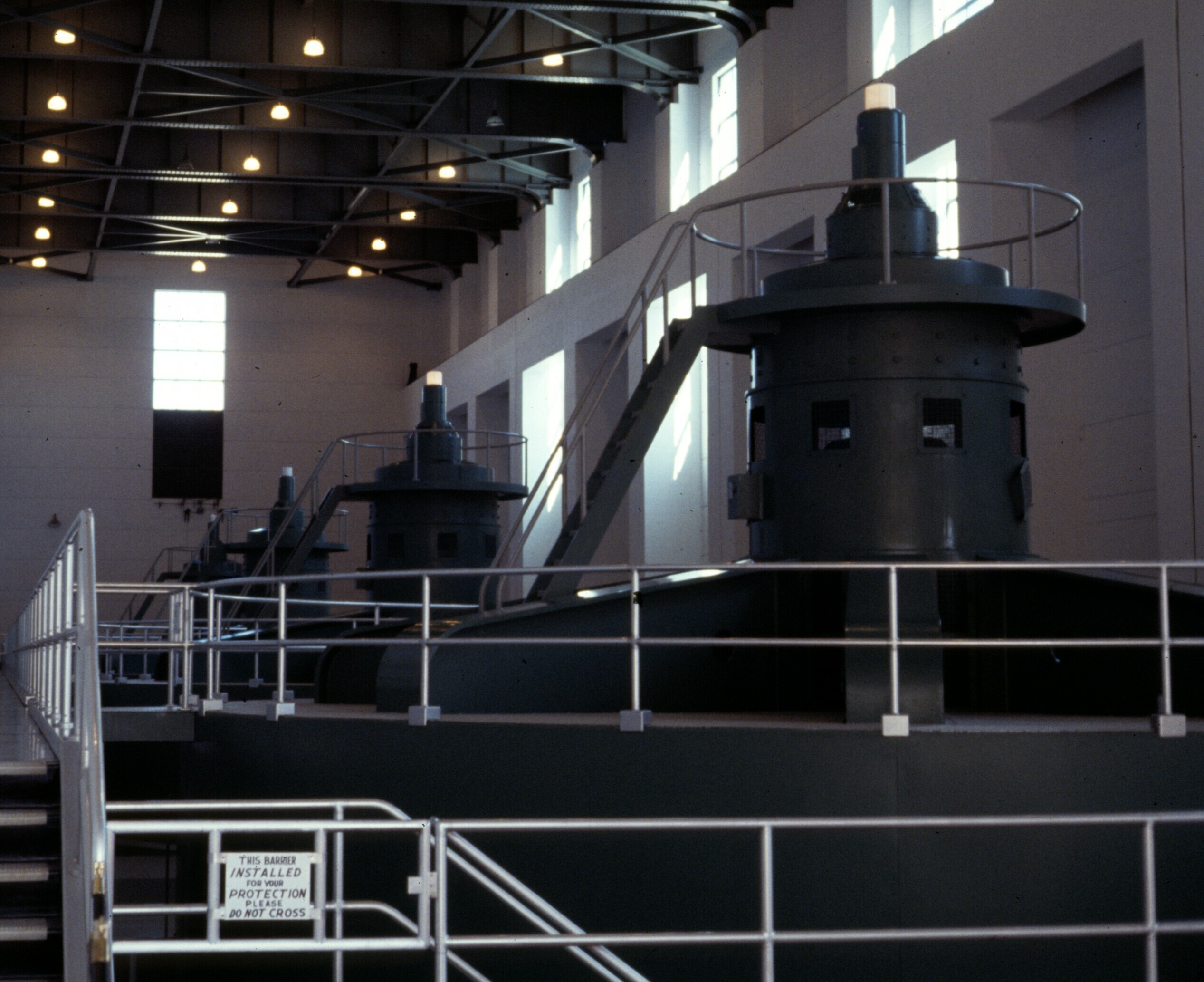 Hydroelectric turbine hall at Parker Dam in 1973 photo, showing 4 turbines with a combined capacity of 120 MW.